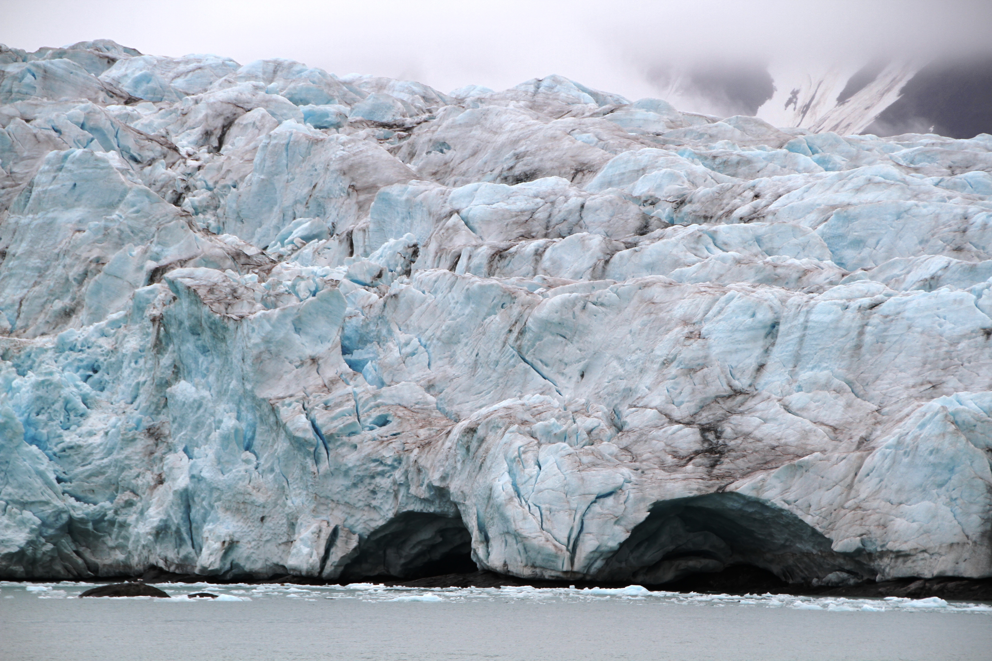 Photo from the Adolfbukta bay, with Nordenskiöld glacier, Spitsbergen